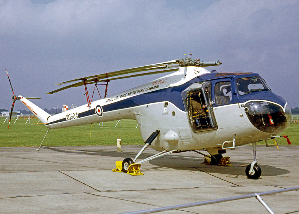 Bristol 171 Sycamore HC.14 of the Metropolitan Communications Squadron RAF Air Support Command in 1968